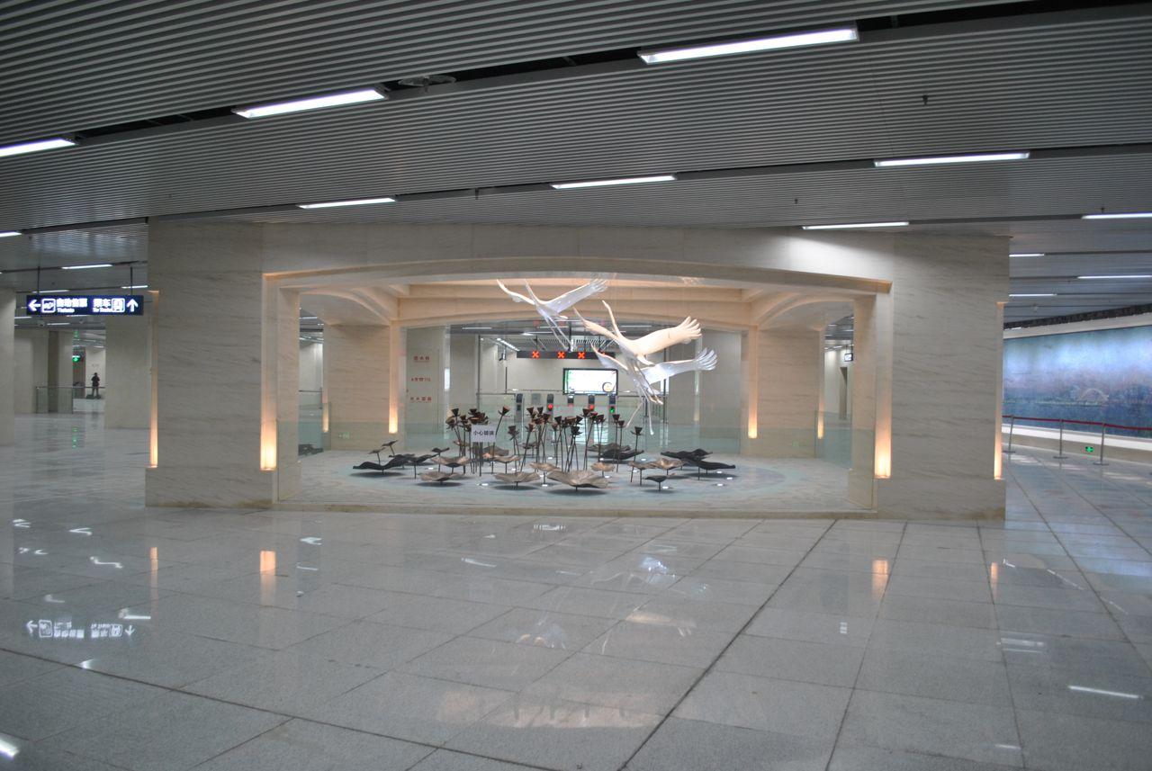 Hankou Railway Station (Subway)